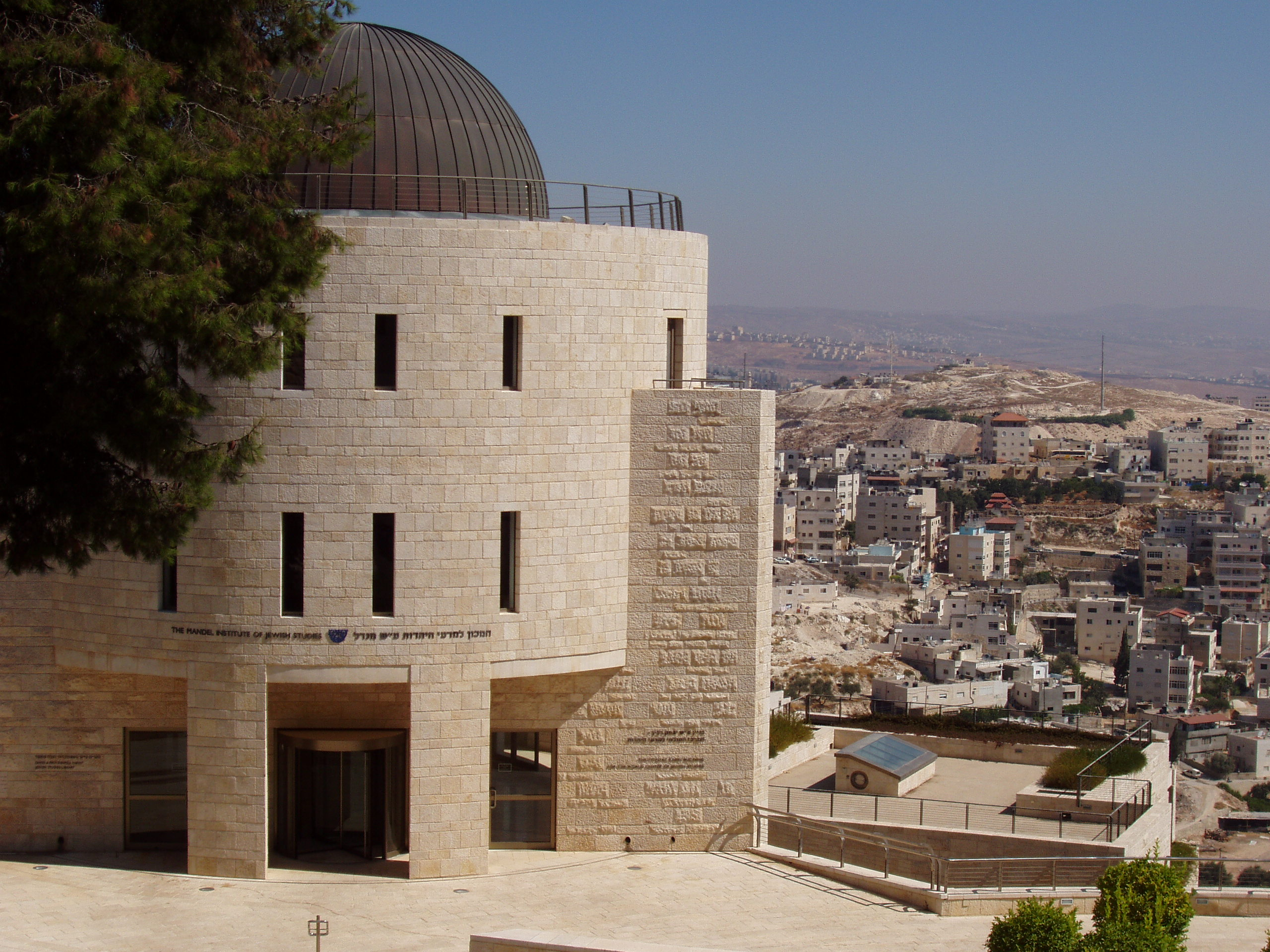 Hebrew University Campus, Mount Scopus - Mandel Institute of Jewish Studies